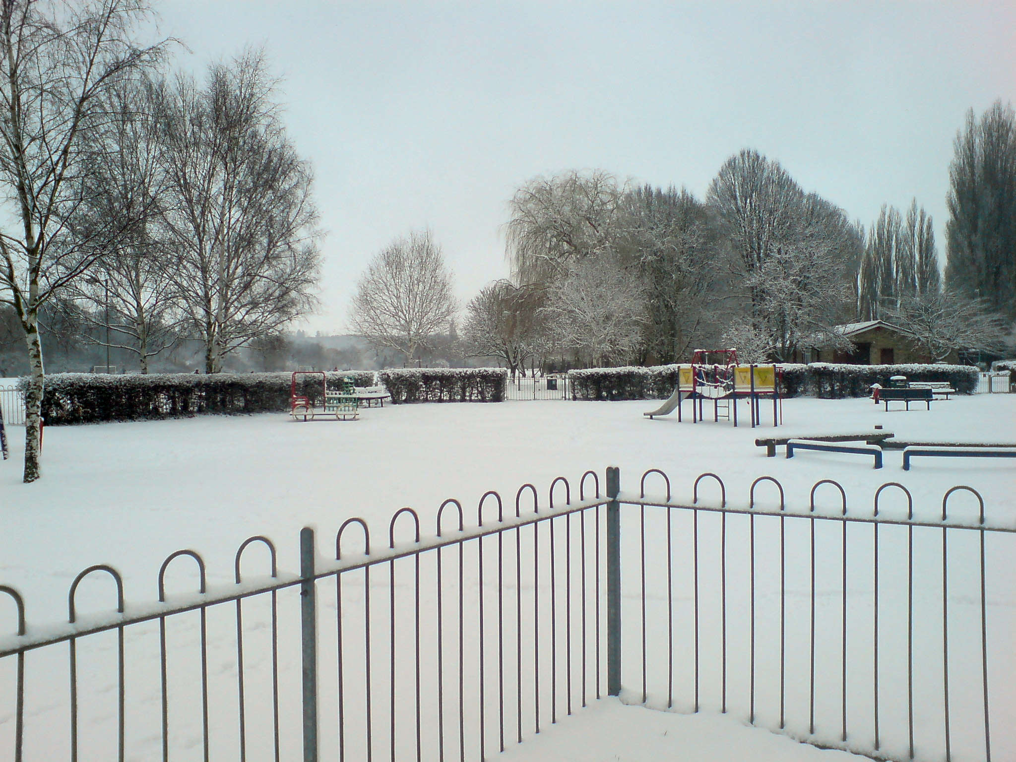 Hartham Playground Snow, Author: Jamsta